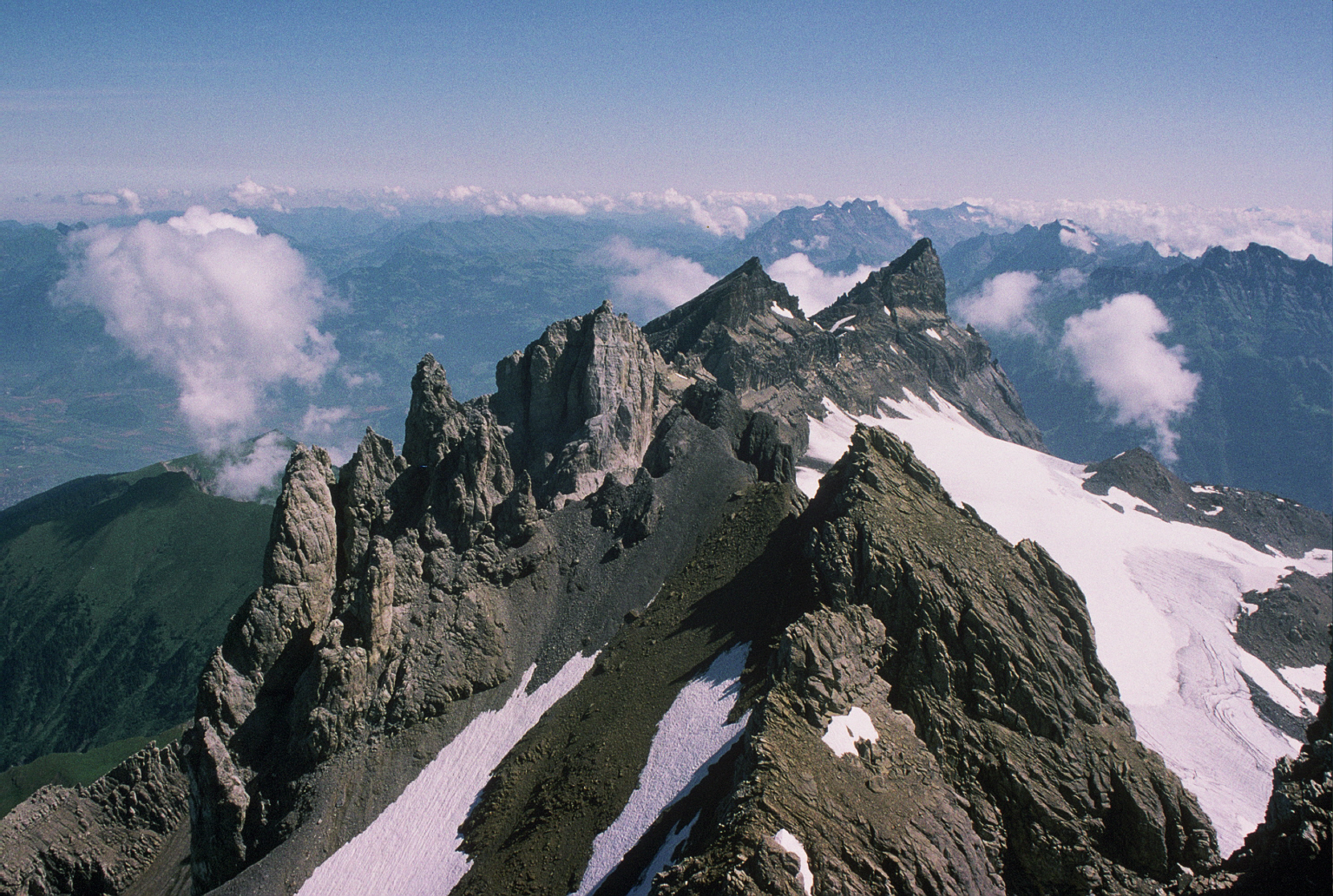 Six peaks of the Dents du Midi as seen from the seventh and highest one (the Haute Cime, 3257 m)